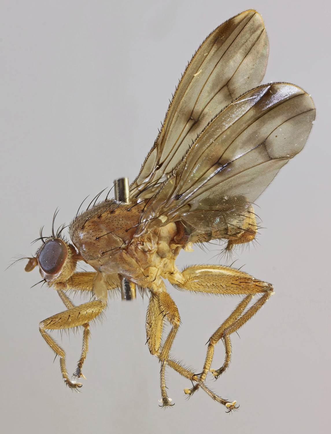 Suillia variagata male, North Wales, May 2013